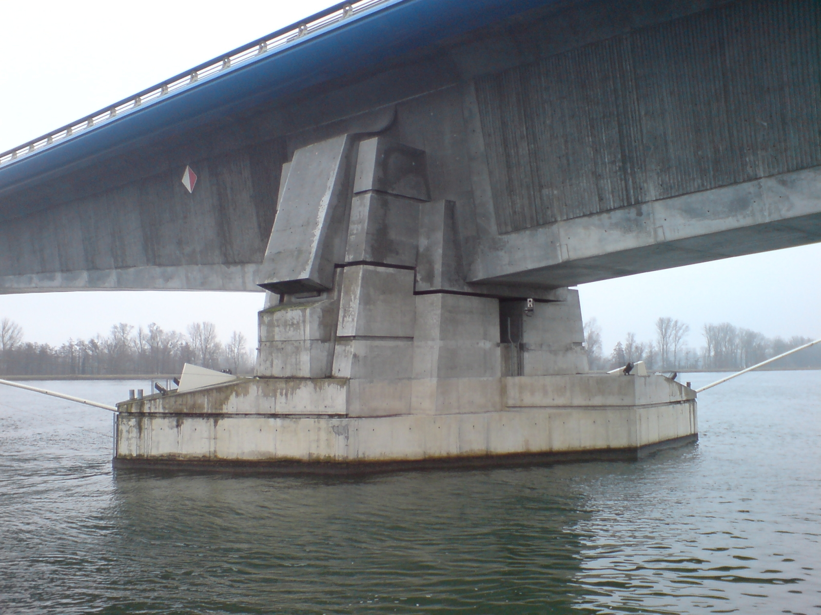 The 'Pierre Pflimlin Bridge' over the Rhine between Germany and France, south of Strasbourg.